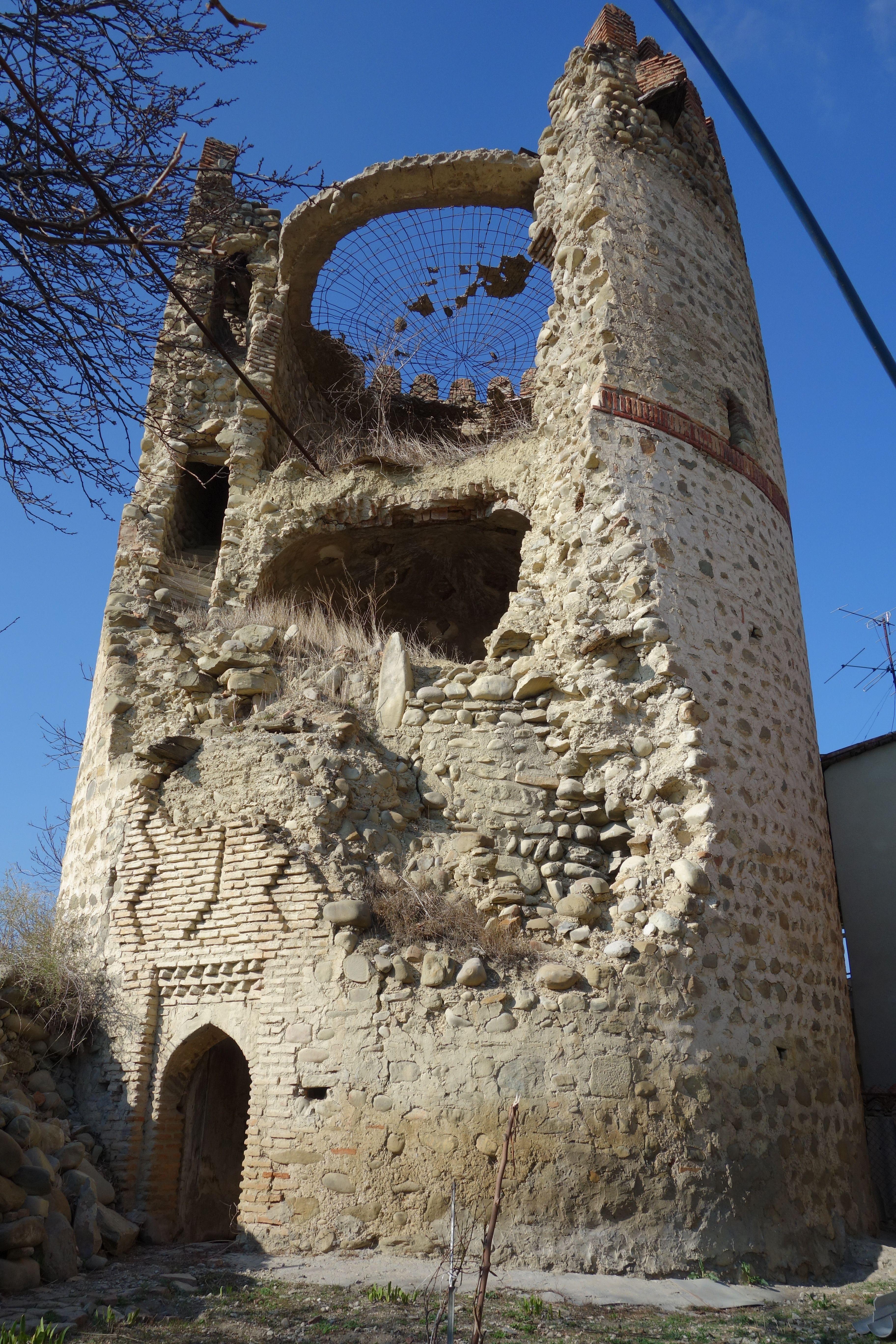 Tushmalishvilebis' Tower in Martkopi, Kvemo Kartli, Georgia